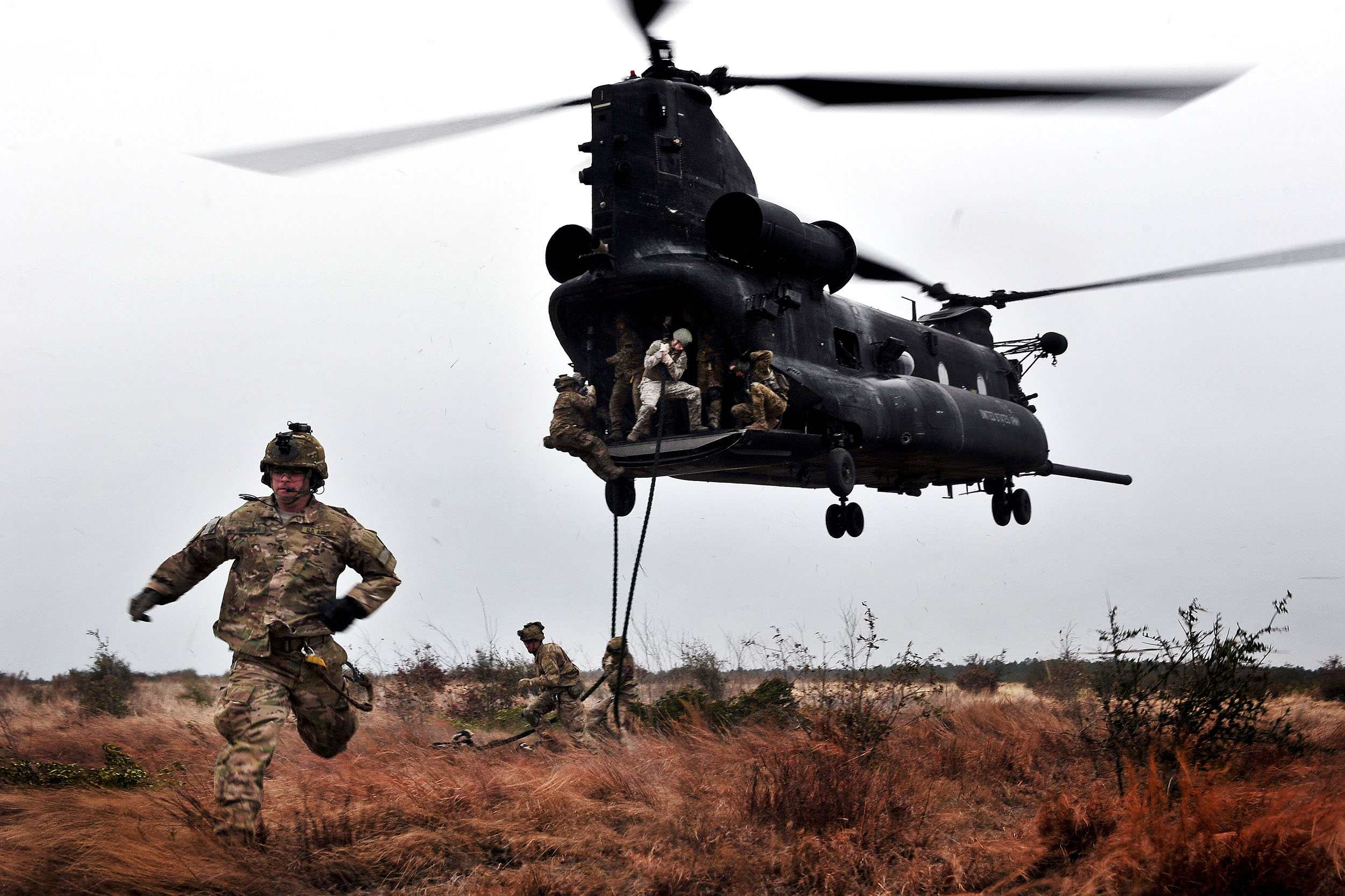 Rangers rappel out the back of a CH-47 Chinook helicopter while participating in a combined arms live-fire exercise near Fort Stewart, Ga., on Jan. 10, 2012. The Rangers are assigned to the 1st Battalion, 75th Ranger Regiment. The exercise is conducted to evaluate and train members on de-escalation of force, reactions to enemy contact and other objectives that prepare them for forward operations.